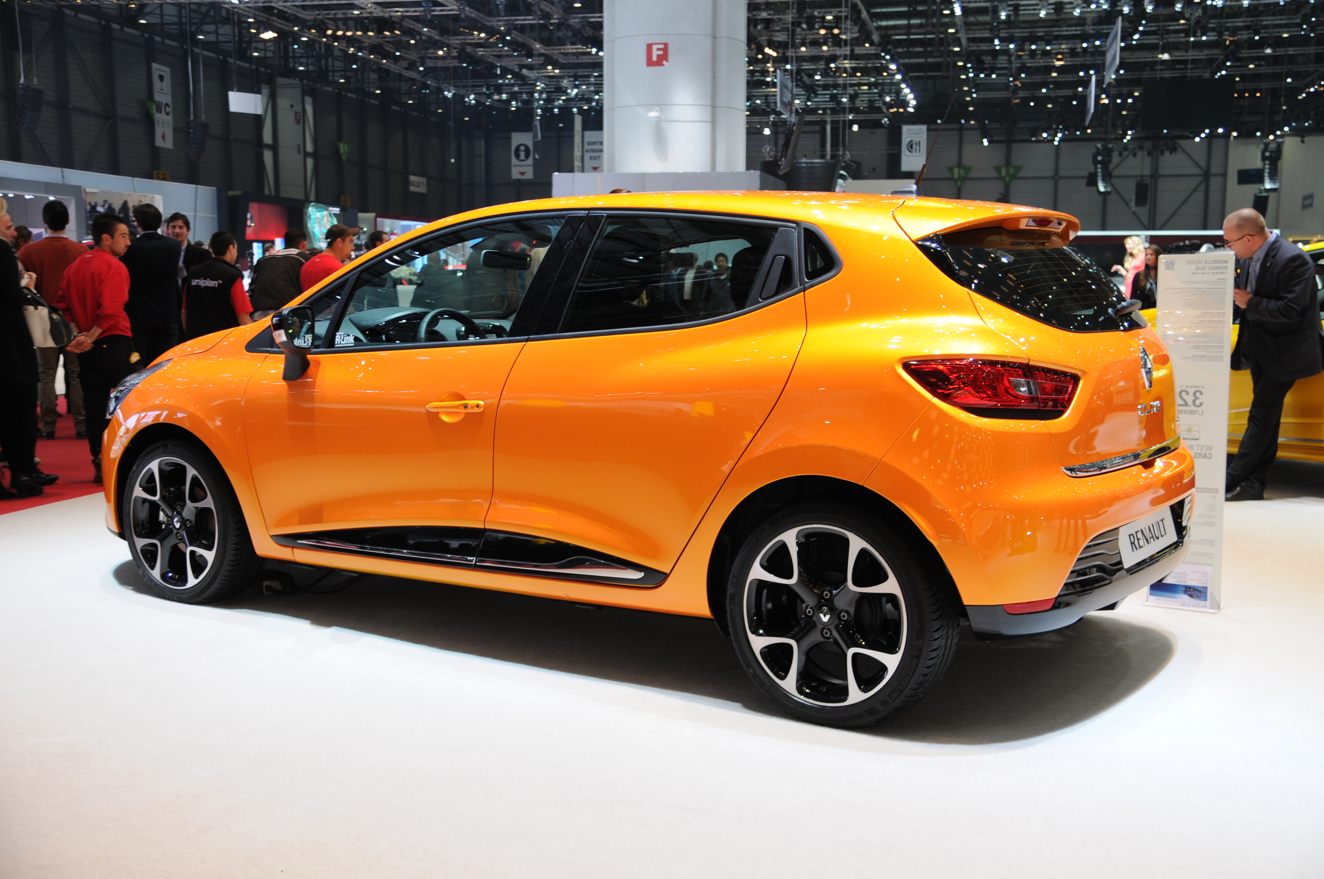 Geneva Motor Show 2013 (photos taken on the first press day)